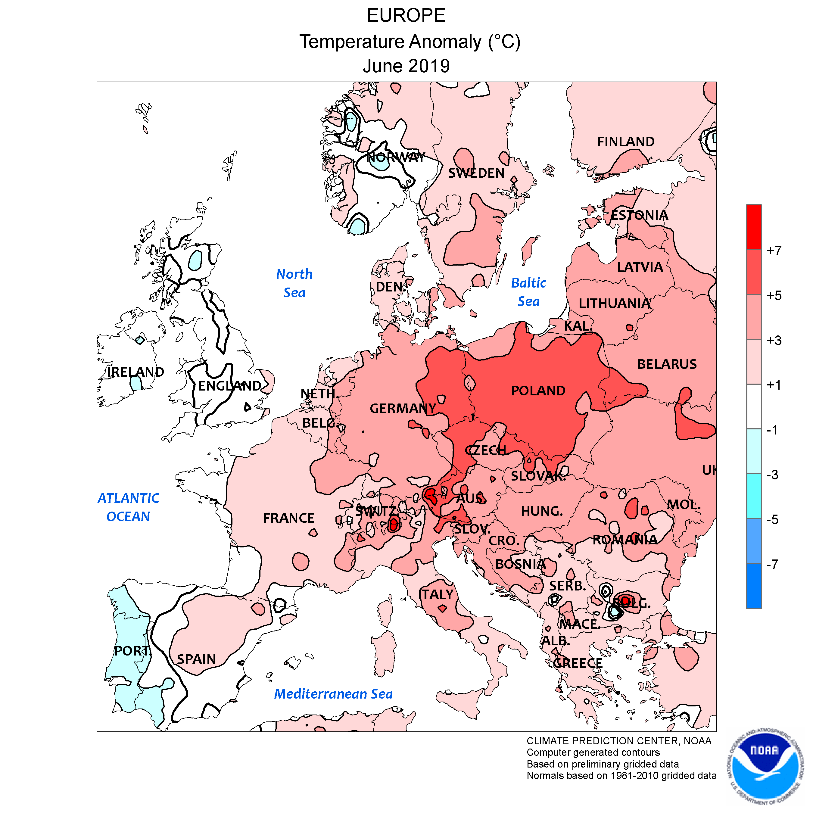 Europe: Temperature anomaly June 2019, computer generated contours, based on preliminary data;2019 European heat wave.